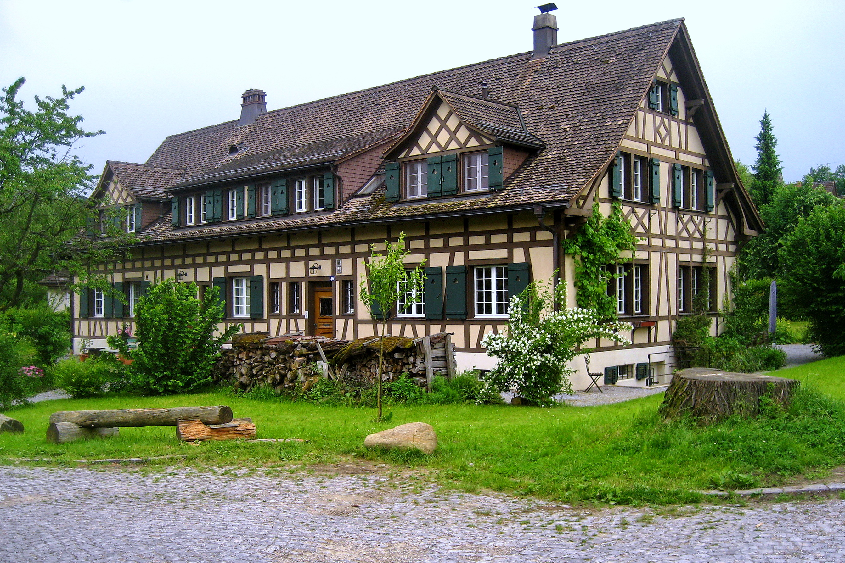 Zürich, Weinegg quarter (Riesbach, district 8) : Timber framing cottage.